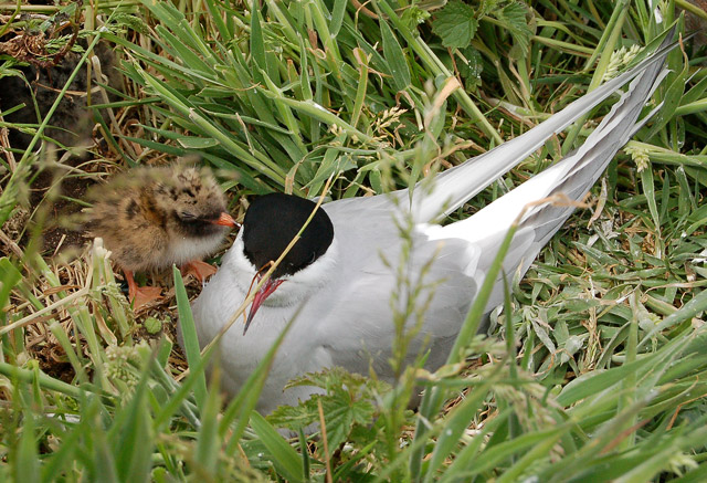 A tern on the nest with her chick, Inner Farne